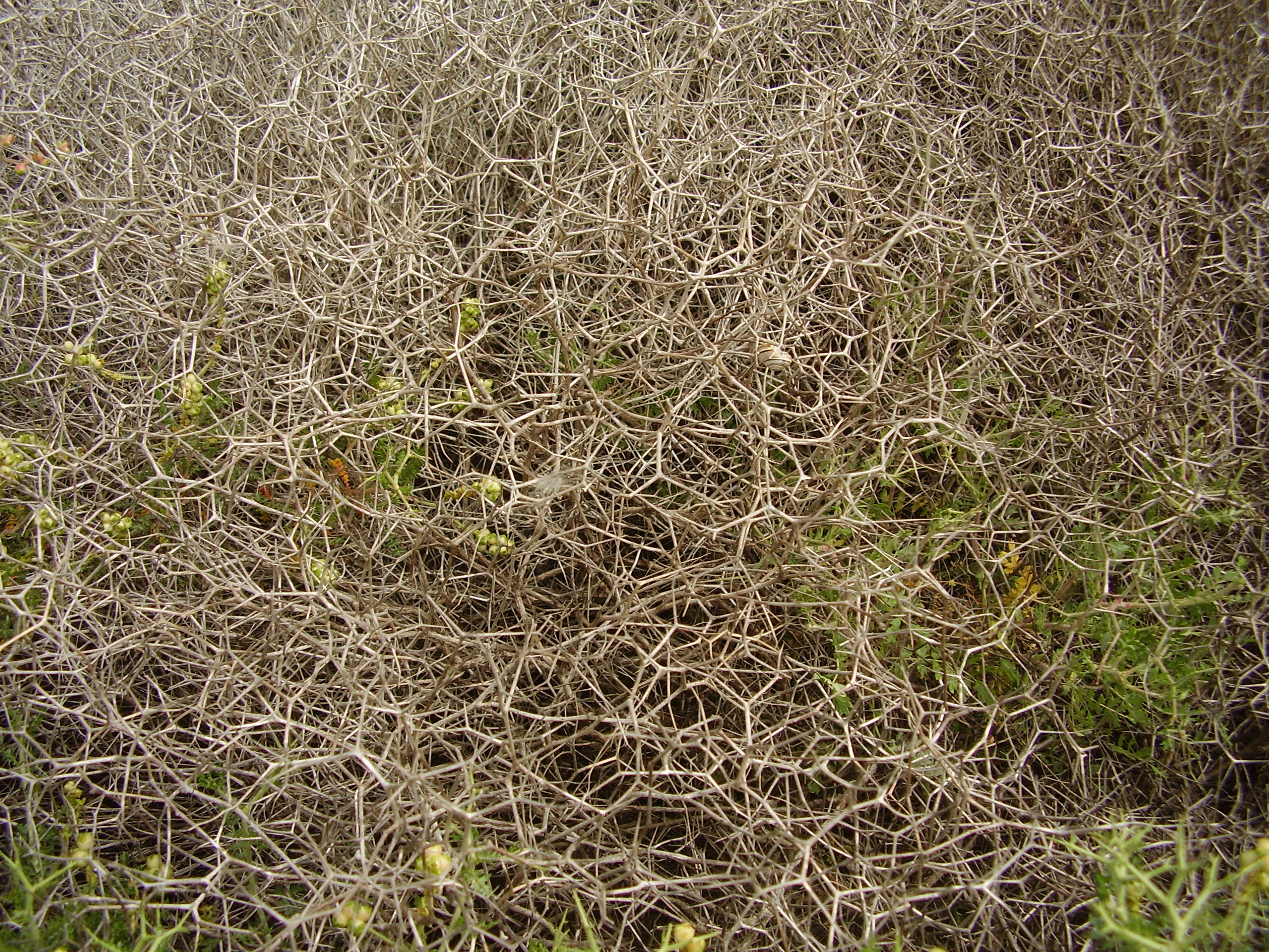 Photographed on 07 April 2007 in the Nahal Taninim nature reserve.